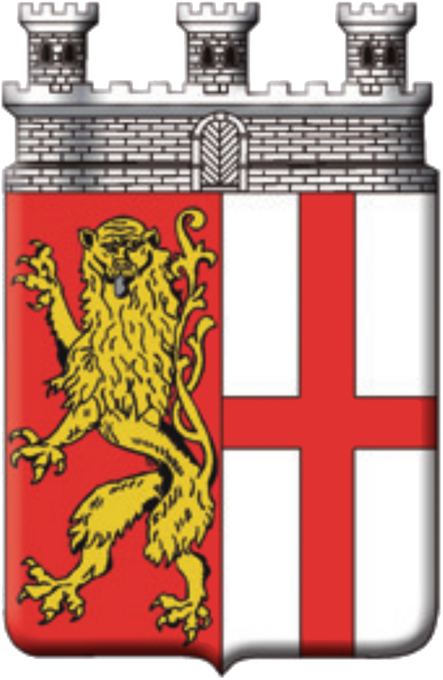 Granted by the King of Prussia in 1909. The city was ruled in medieval times by both the Archbishops of Trier and the Counts of Sayn. The cross of Trier and the lion of Sayn both appear on separate 14th century seals of the city, with St, Marcellinus and St. Peter, the patron saints, as supporters. In 1681 Trier acquired the whole area and until the early 20th century only the cross was used in the seals. The present arms, granted in 1909, combine for the first time the lion and the cross in a single shield.